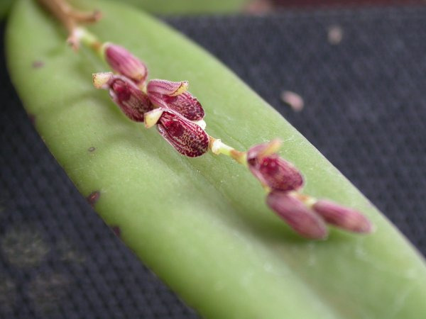 This is a perfect match to Pleurothallis riograndensis, now a syn. of Acianthera pubescens.